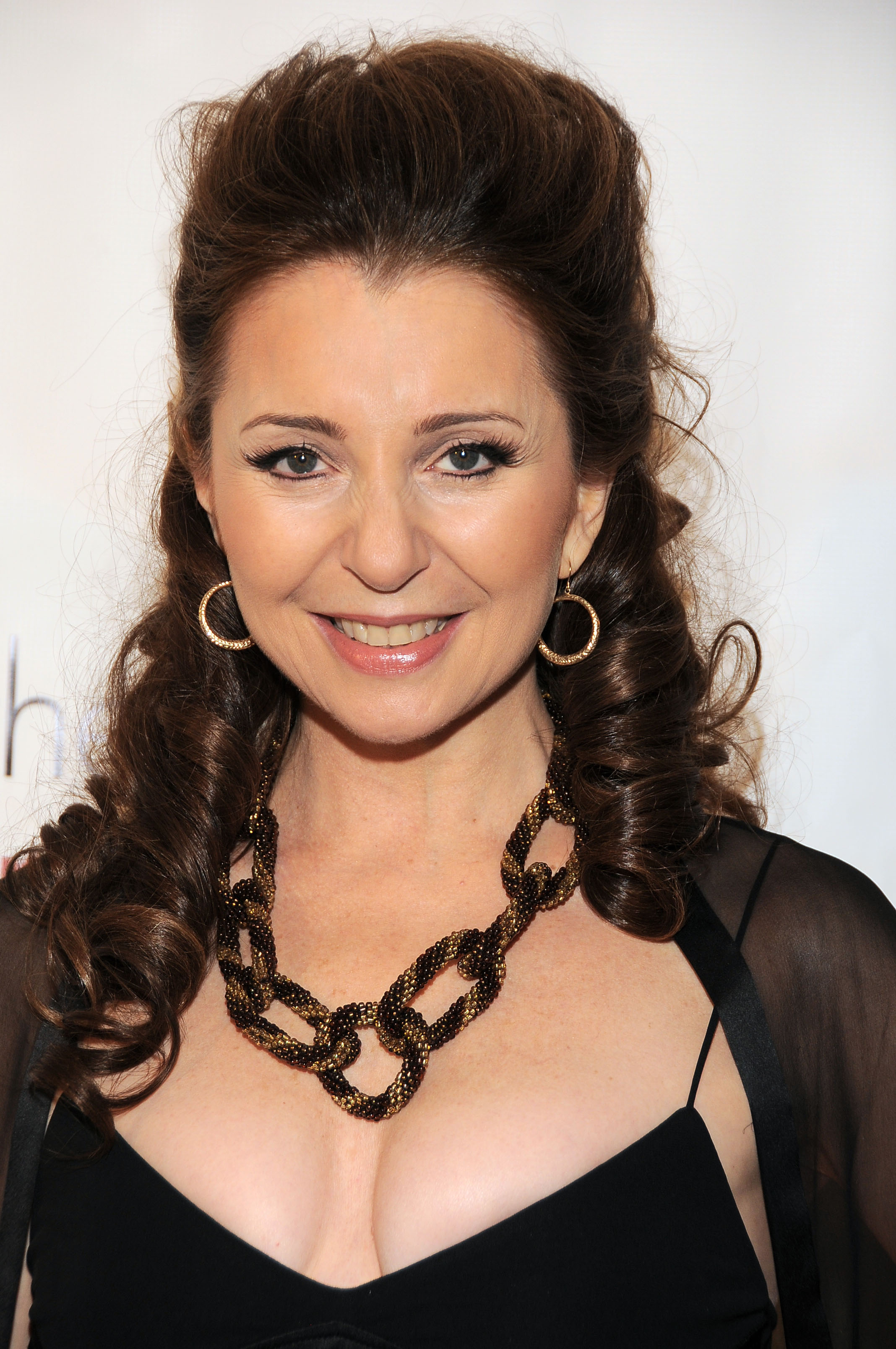 Donna Murphy at the Drama League Benefit Gala Honoring Angela Lansbury, February 8, 2010. The Pierre, New York City.